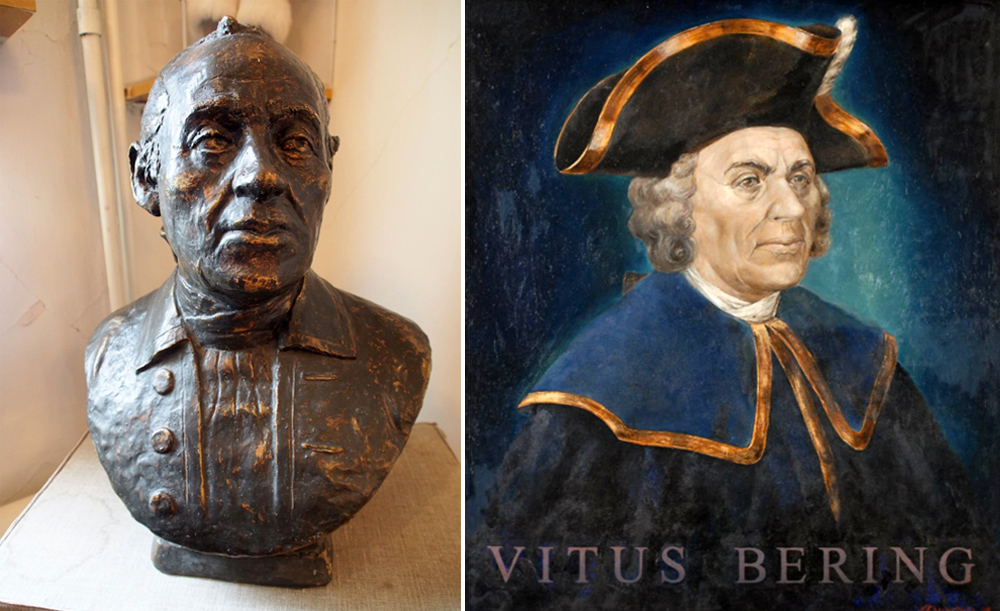 Post-mortem reconstruction of Vitus Jonassen Bering's face.